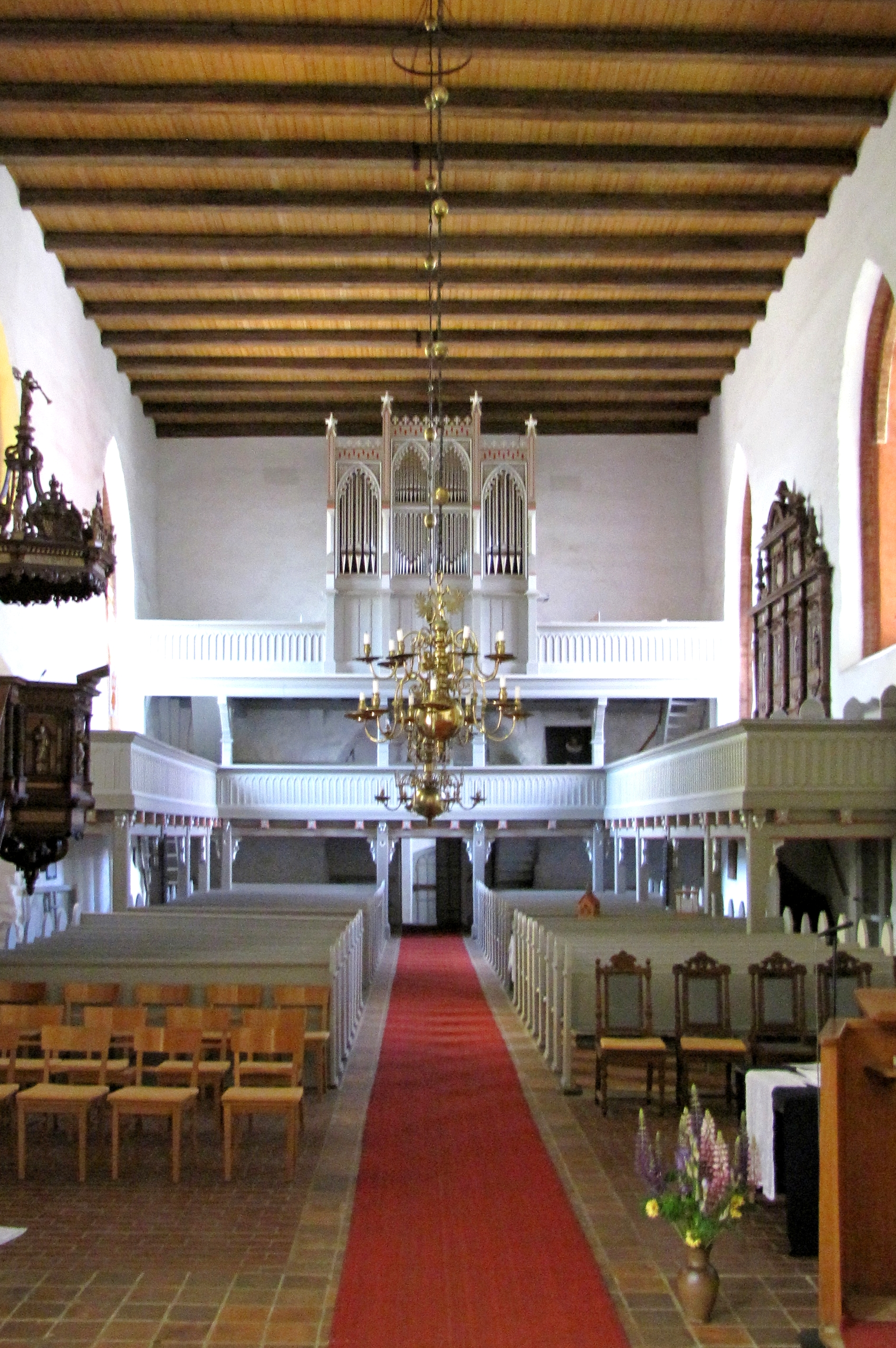 Church in Dassow, view towards the organ